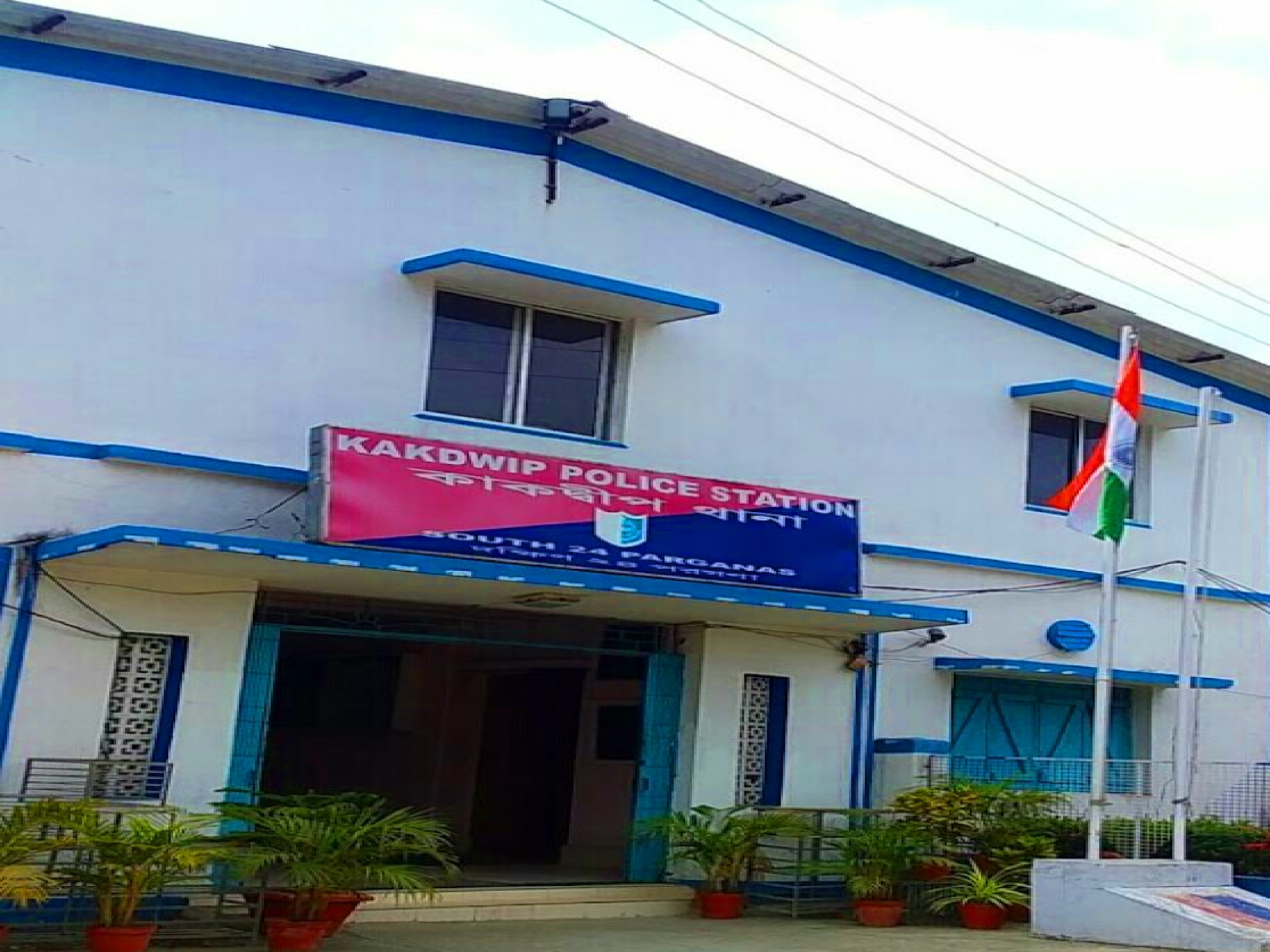 Building of the Kakdwip Police Station